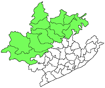 Paderu revenue division in Visakha district (in green)